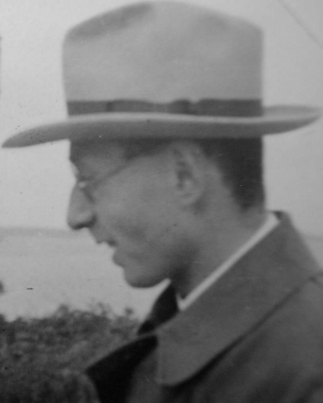 Eugene Paul Wigner (1928)